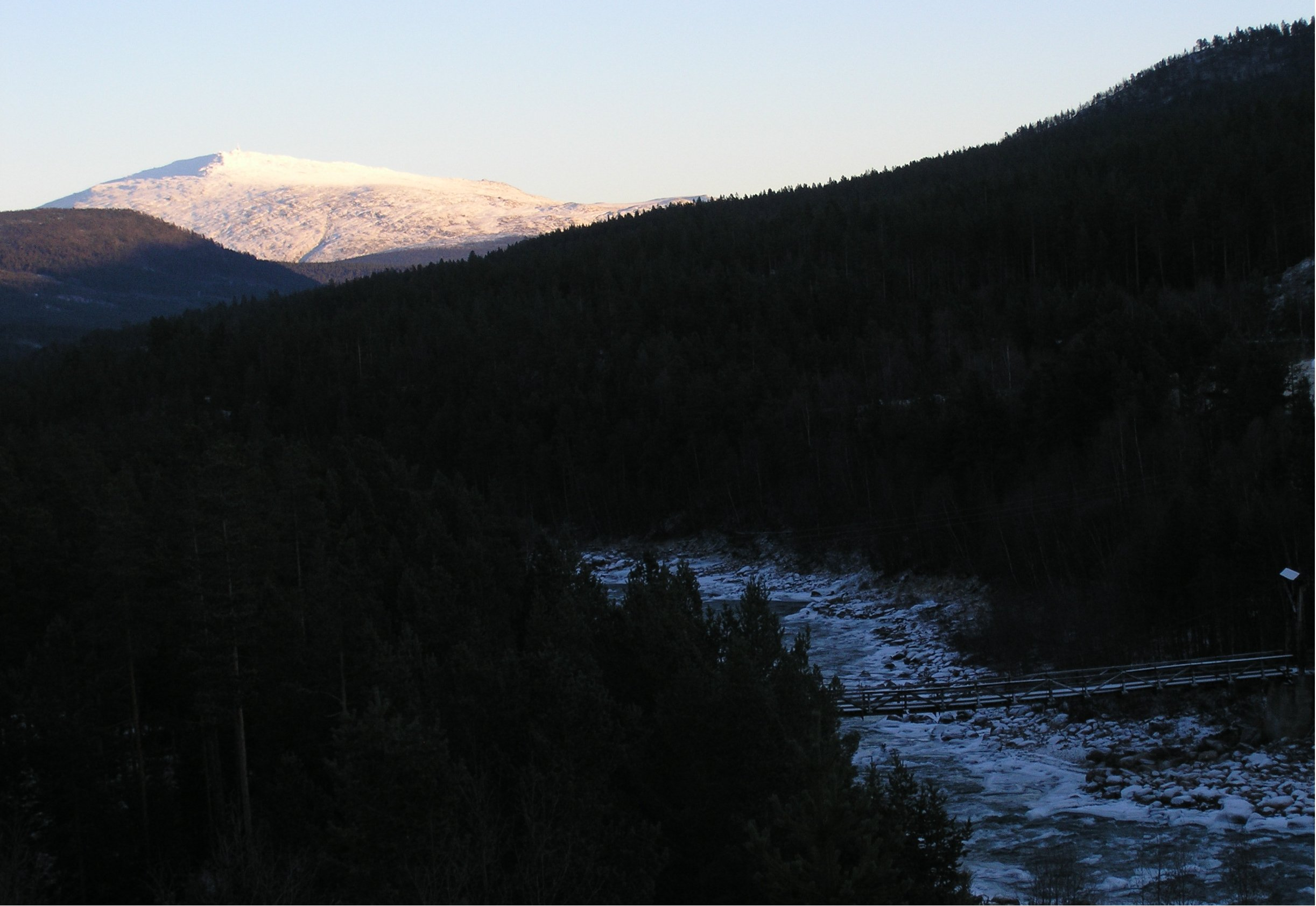 River Folla with Trond mountain in Alvdal as backdrop